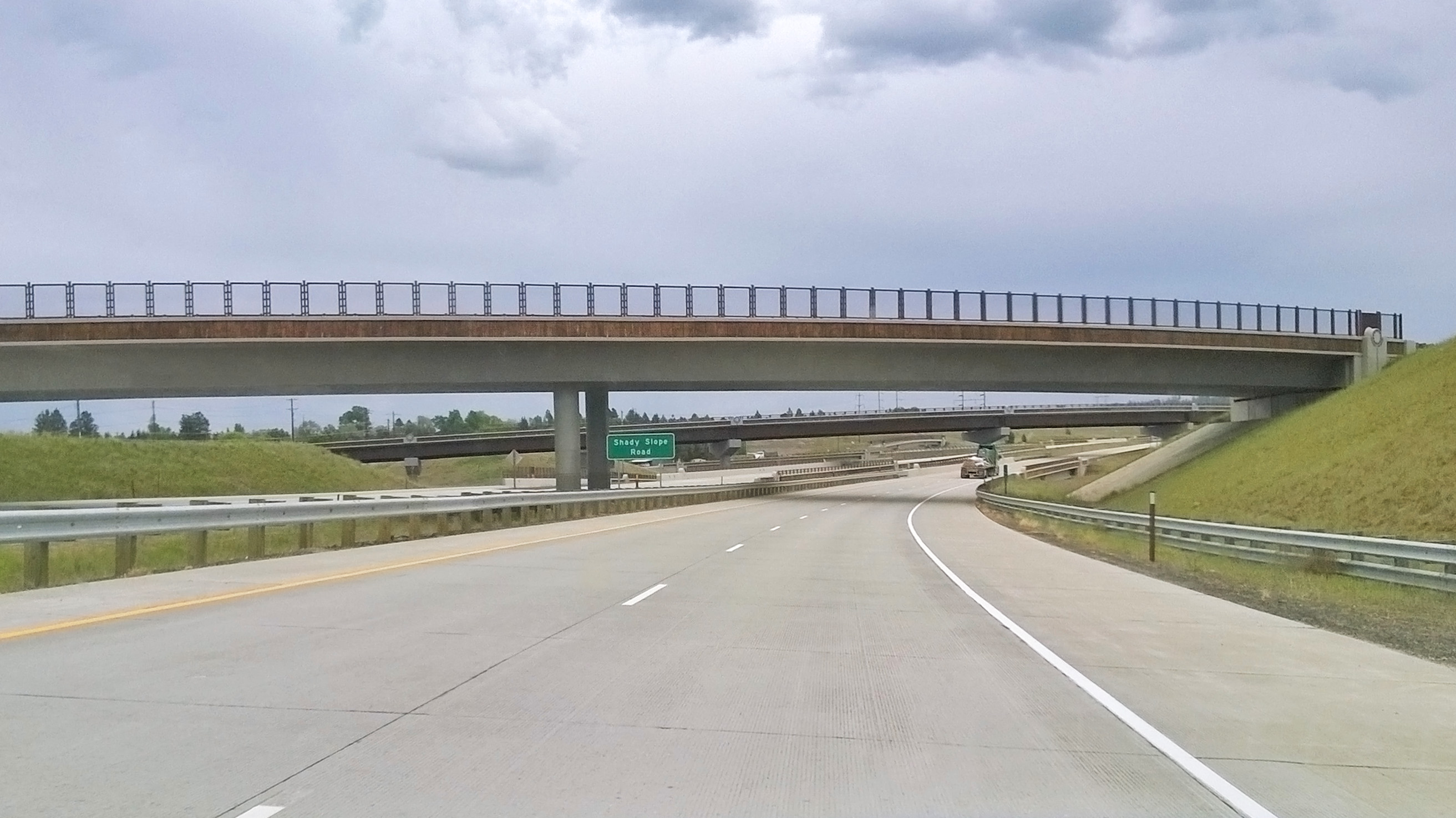 Southbound on the North Spokane Corridor in Spokane, Washington near its interchange with U.S. Route 2.